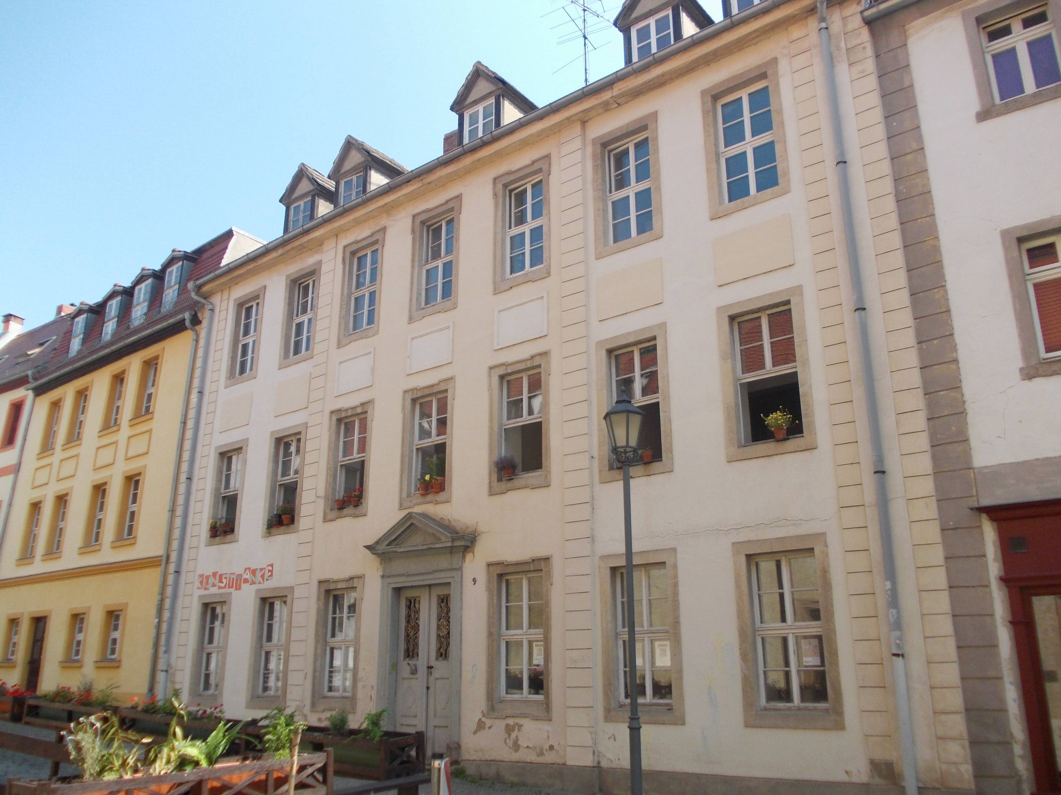 No. 9, Domstrasse in Merseburg (district: Saalekreis, Saxony-Anhalt)